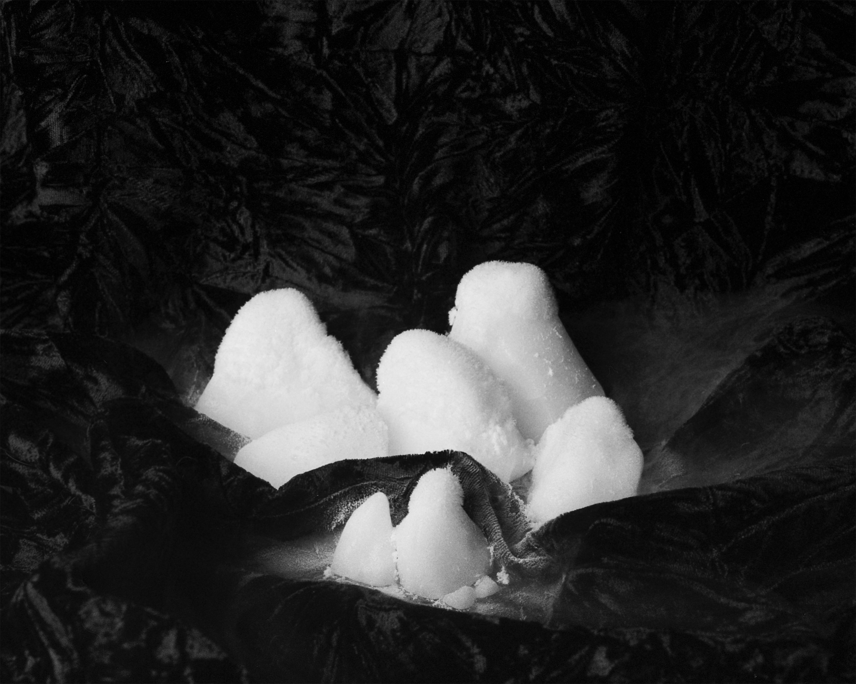 Dry Ice displaying the concept of sublimation as it evaporates from a solid to gas form.